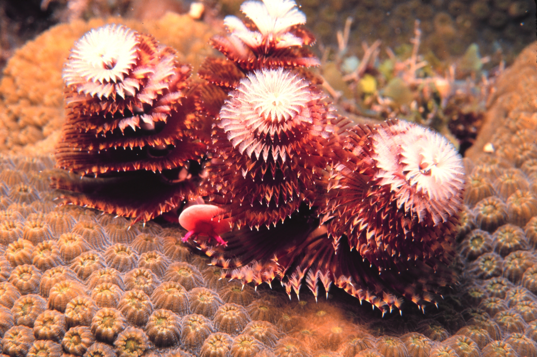 The Christmas tree worm - Spirobranchus giganteus seen here on Elbow Reef. Florida Keys National Marine Sanctuary.